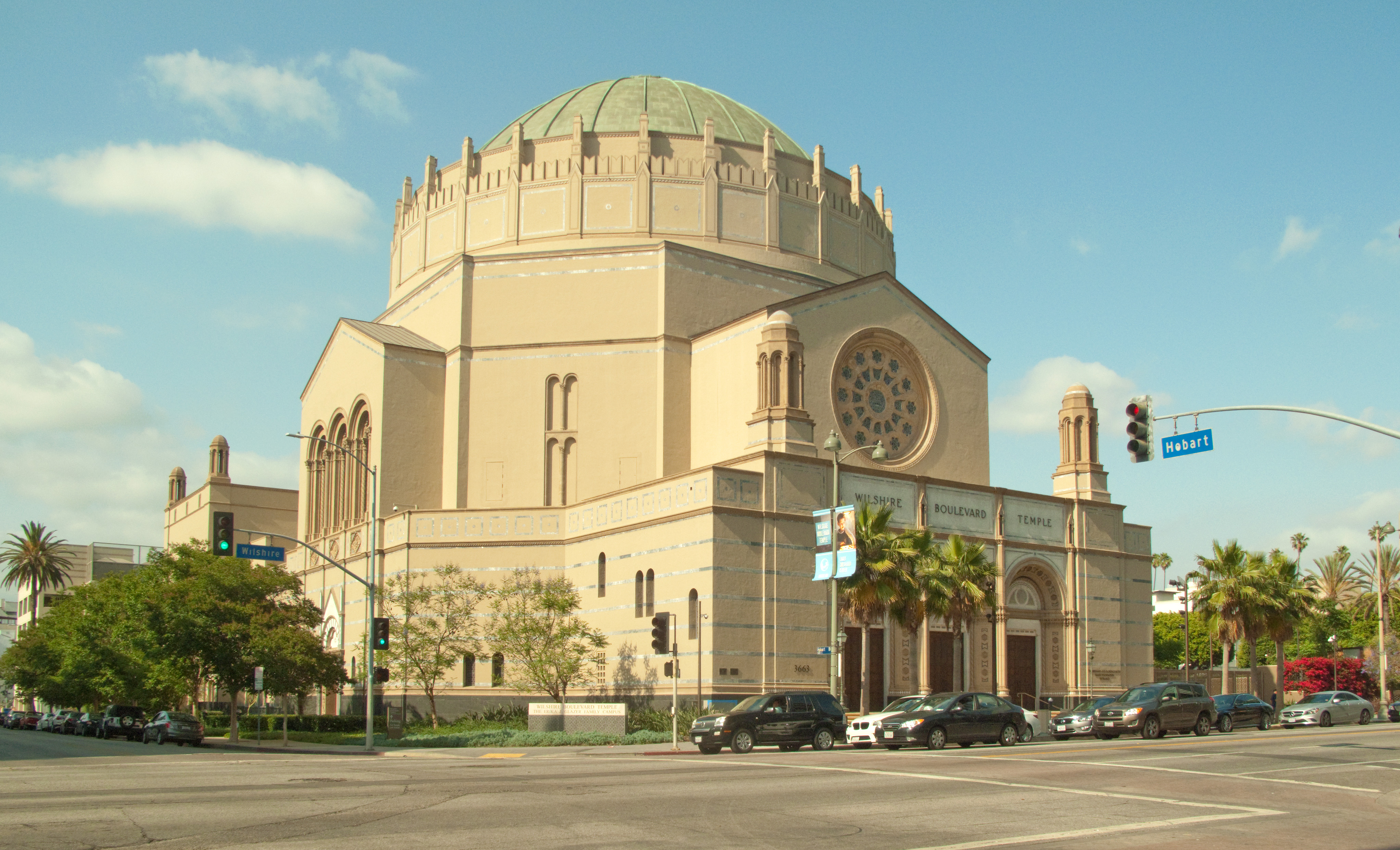 Wilshire Boulevard Temple from the southwest, looking northeast, in the afternoon.